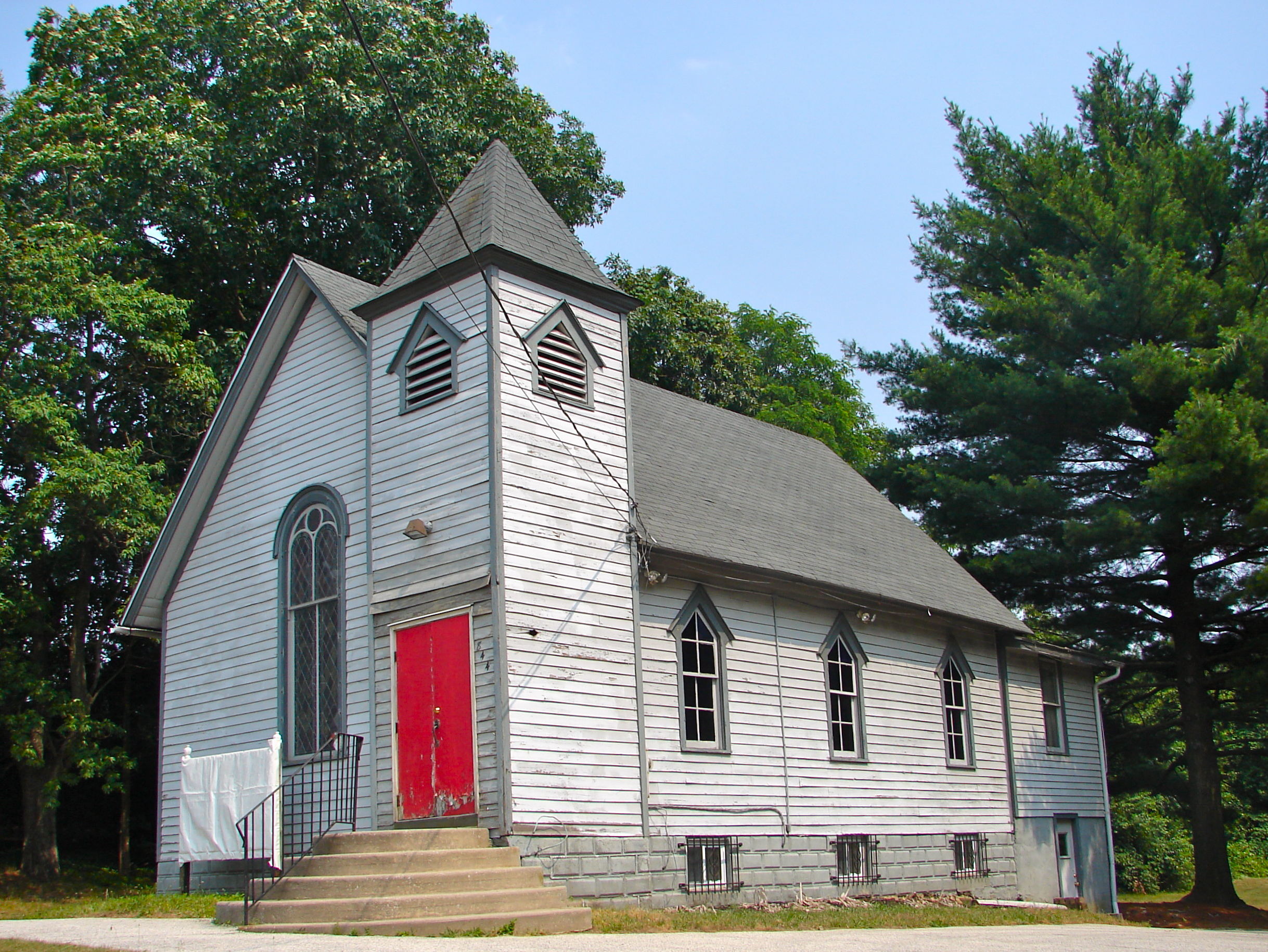 Solomon Wesley United Methodist Church on the NRHP since April 10, 1989. (Formerly) at 291-B Davistown Rd./Asyla Rd. (I believe the numbering system has been modified in the area), Blackwood, Camden County, New Jersey. Coord given is about 40 yards west of church. Style listed is "Greek Revival" which probably applies only to front window. Obviously a few minor questions on whether this is the proper church, but I'm 90%+ sure this is it.